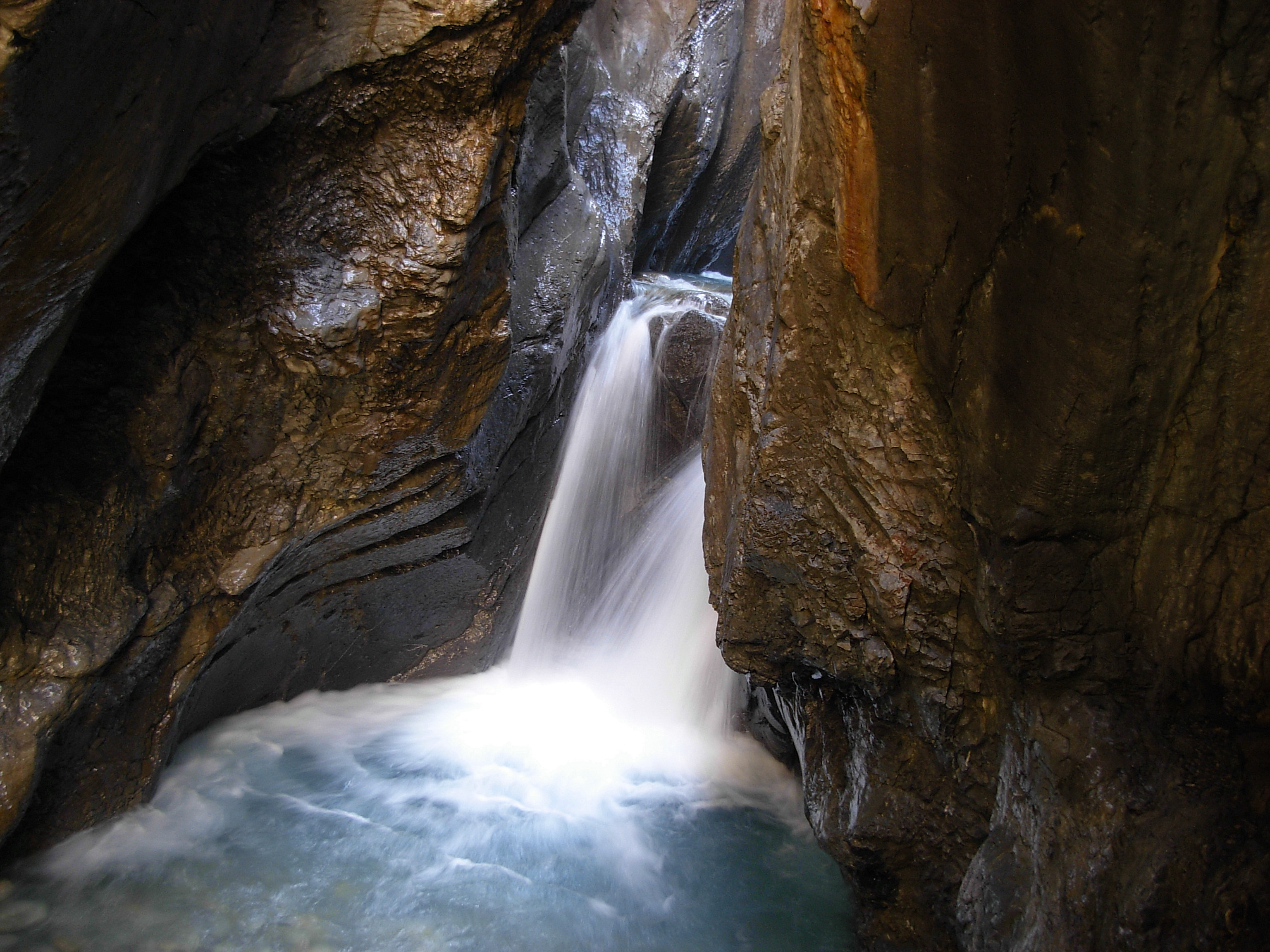 Waterfall in the Rosenlaui ravine (Switzerland)